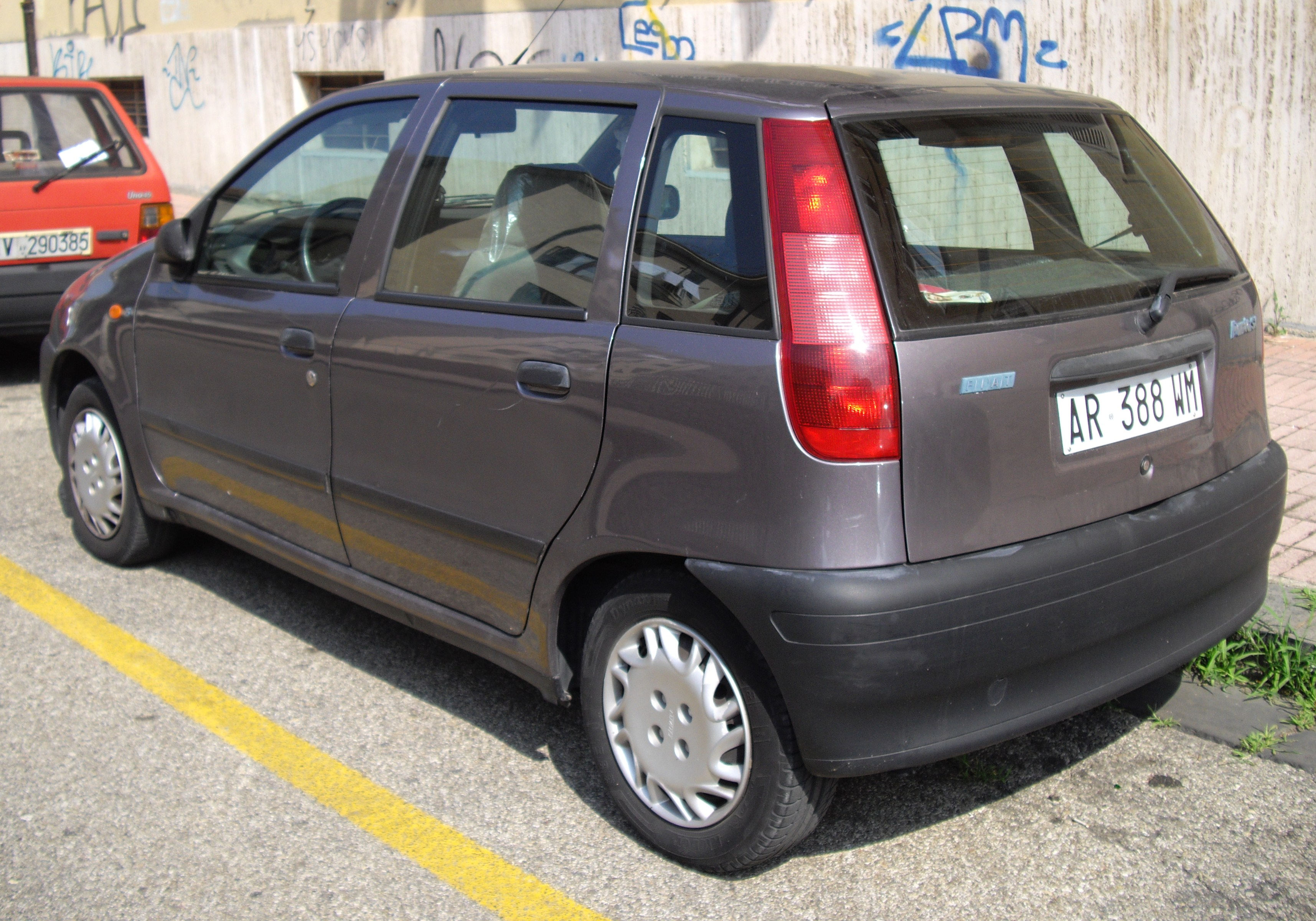 Fiat Punto rear